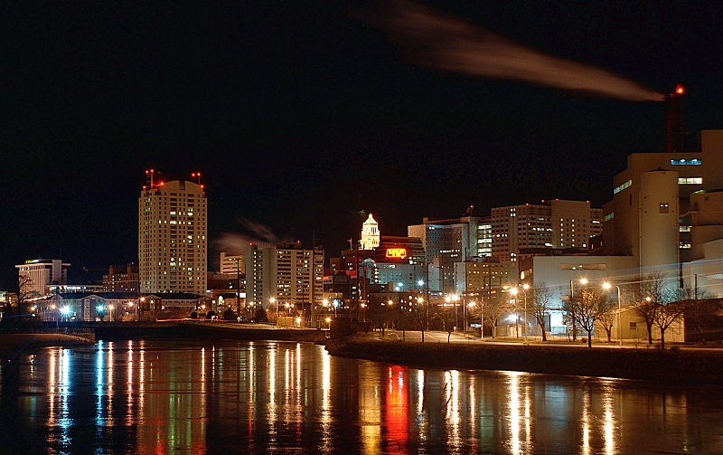 Rochester, Minnesota, skyline at night, as seen from 7th St/Hwy 33 bridge. Major features, left to right: Center Plaza, Doubletree Rochester, Broadway Plaza, Park Towers, Plummer Building, Siebens Building, Mayo Building, Gonda Building, RPU power plant. Also visible is the neon-red Kahler Hotel sign.